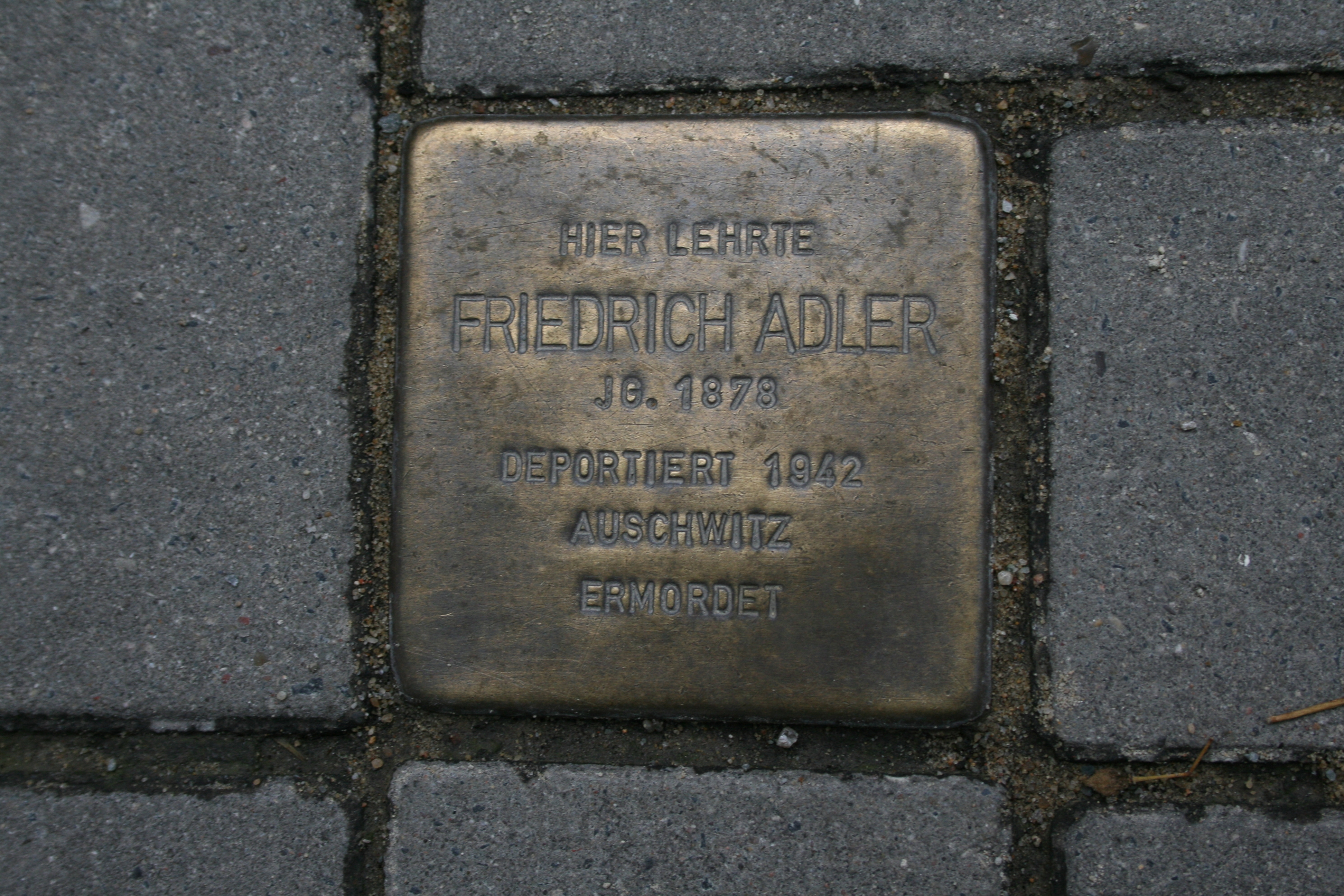 Stolperstein for Friedrich Adler located in front of the stairway at the entrance of the Hochschule für bildende Künste Hamburg, Lerchenfeld